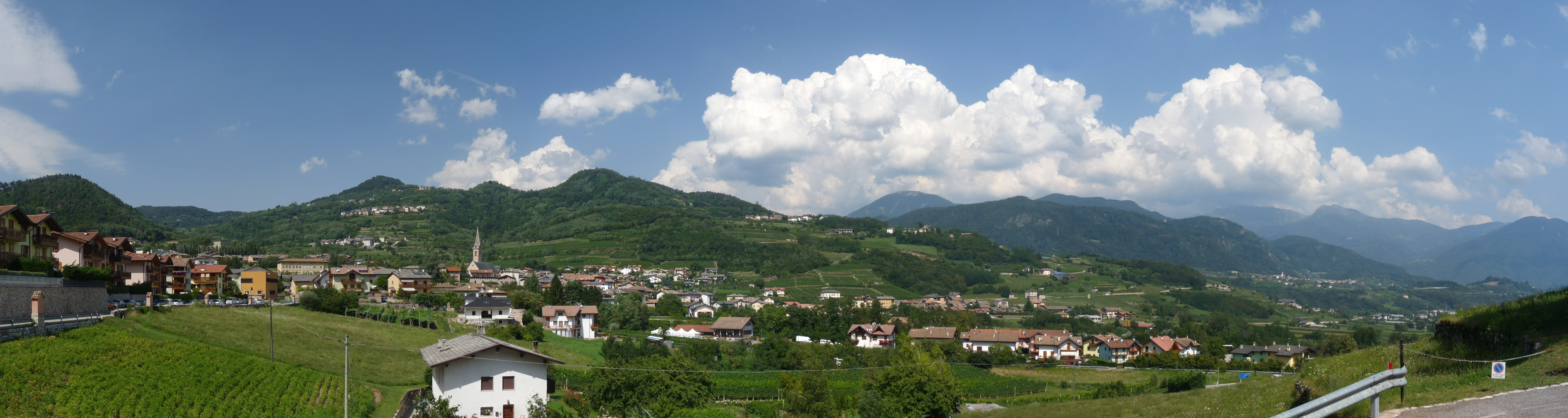 Civezzano (Italy, province of Trento): panorama